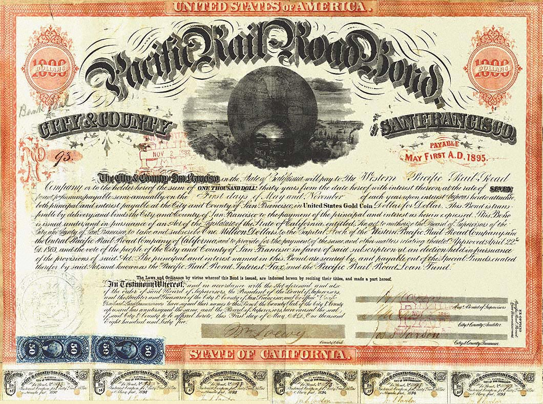 Pacific Rail Road Bond $1000 (No. 93) issued by the City & County of San Francisco (1865) Source: The Cooper Collection of American Railroadiana This Bond is one of the 400 issued to the Central Pacific Rail Road Company of California and 200 to the Western Pacific Rail Road Company in 1865 under the Act of the California Legislature passed on April 22, 1863 (as amended by Section Five of the "Compromise Act of April 4, 1864"), and approved by the electors of the City and County of San Francisco by a vote of 6,329 to 3,116 at a highly controversial (and subsequently litigated) Special Election held on Tuesday, May 19, 1863. The issuance of the Bonds was delayed for two years because the Mayor of San Francisco, Henry P. Coon, and then the County Clerk, Wilhelm Loewy, each refused to countersign the Bonds until ordered to do so by the Supreme Court of the State of California which granted Writs of Mandamus against Coon in 1864 ("The People of the State of California on the relation of the Central Pacific Railroad Company vs. Henry P. Coon, Mayor; Henry M. Hale, Auditor; and Joseph S. Paxson, Treasurer, of the City and County of San Francisco" (25 Cal 635) and Loewy in 1865 ("The People ex rel The Central Pacific Railroad Company of California vs.The Board of Supervisors of the City and County of San Francisco, and Wilhelm Lowey, Clerk" 27 Cal 655) directing that the Bonds be countersigned and delivered. All sixty of the interest coupons are attached to Bond #93 of which the first thirty-five had each been individually redeemed for semi-annual interest payments of $35.00. Coupon #1 was redeemed and cancelled on November 2, 1865, and coupon #35 on November 2, 1882, at which time the principal of $1,000.00 in gold coin was also paid from the Treasury of the City and County of San Francisco and the Bond was cancelled.